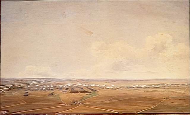 French decisive attack at Wagram, on July 6th, at around 13:00 hours. MacDonald's square-shaped attack column is visible in the centre.